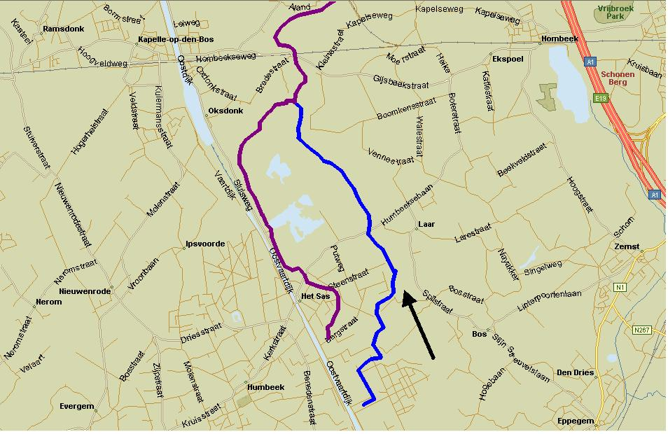 A map of the Laarbeek (blue) and the Aabeek (purple)